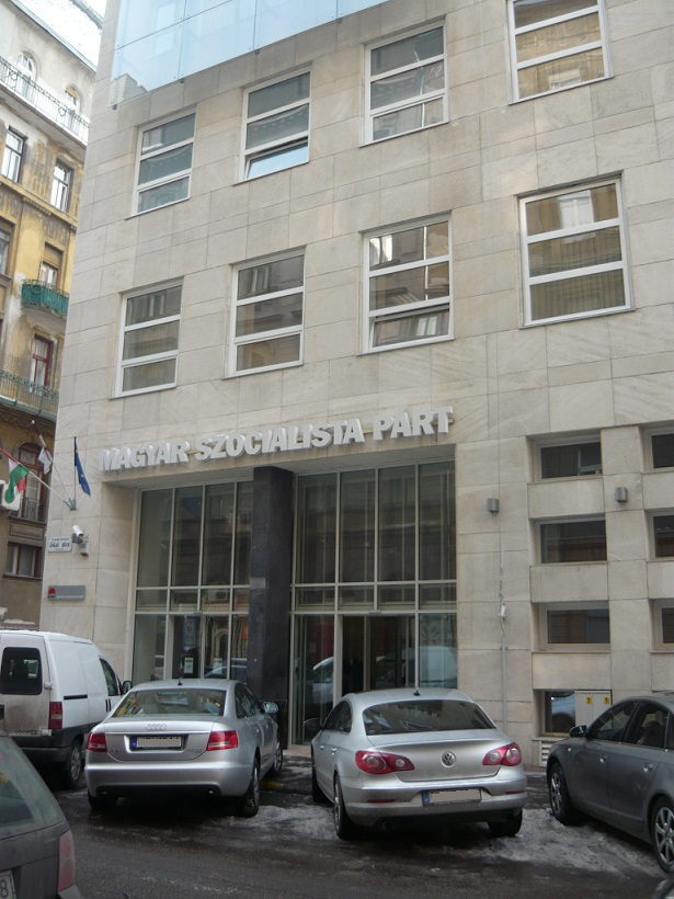 the headquaters of the Hungarian Socialist Party (MSZP) in Budapest, Hungary (1066 Budapest, Jókai utca 6.)